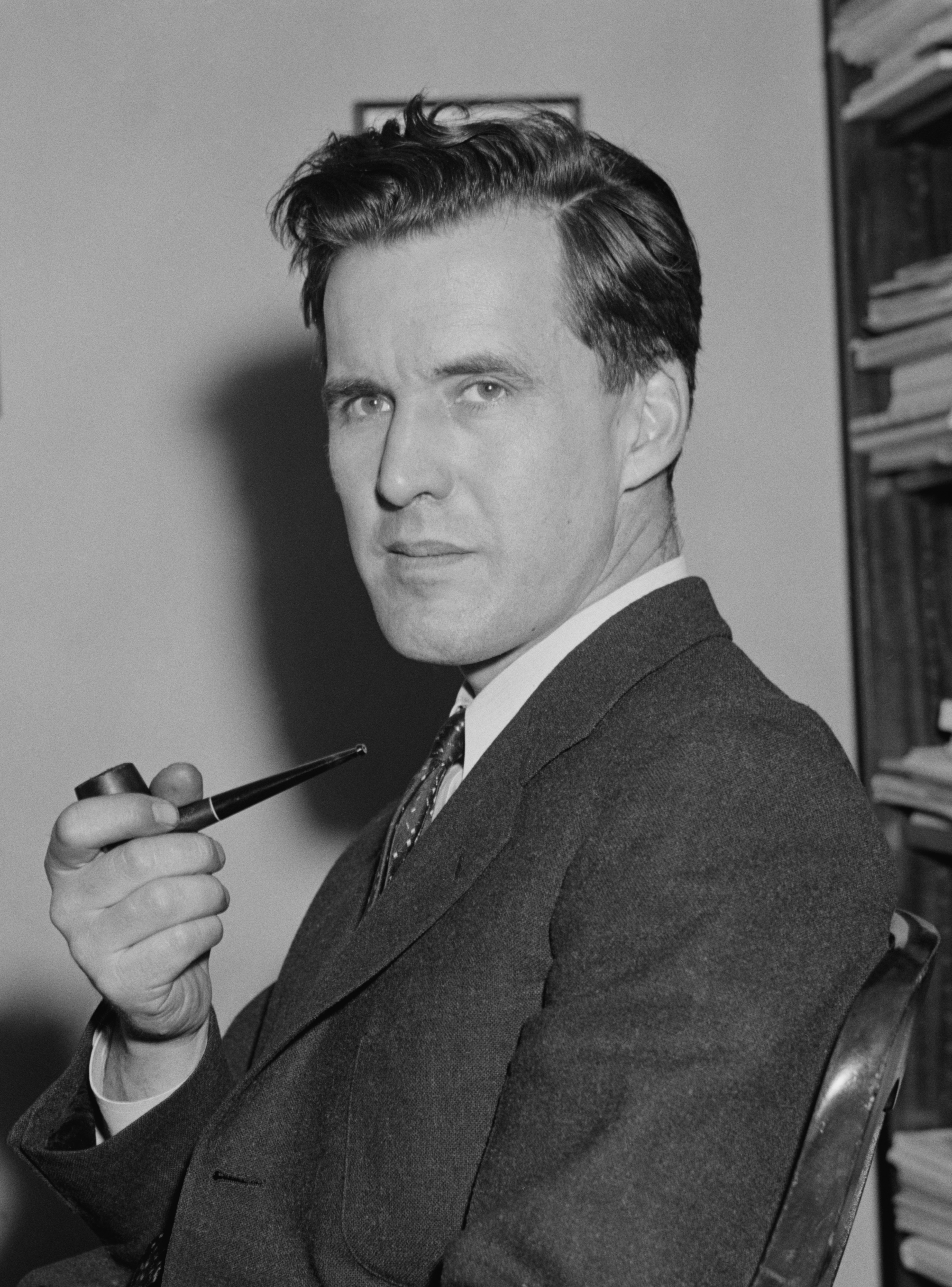 Jerry Voorhis, Californian Democratic member of House of Representatives.